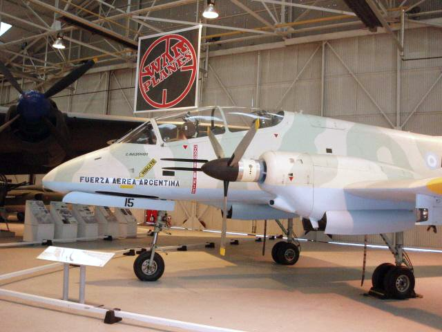 Cosford Pucara